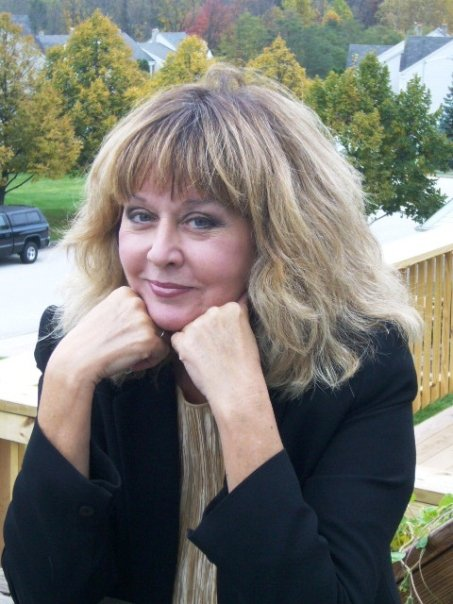 Writer Carole Mallory at her home in PA